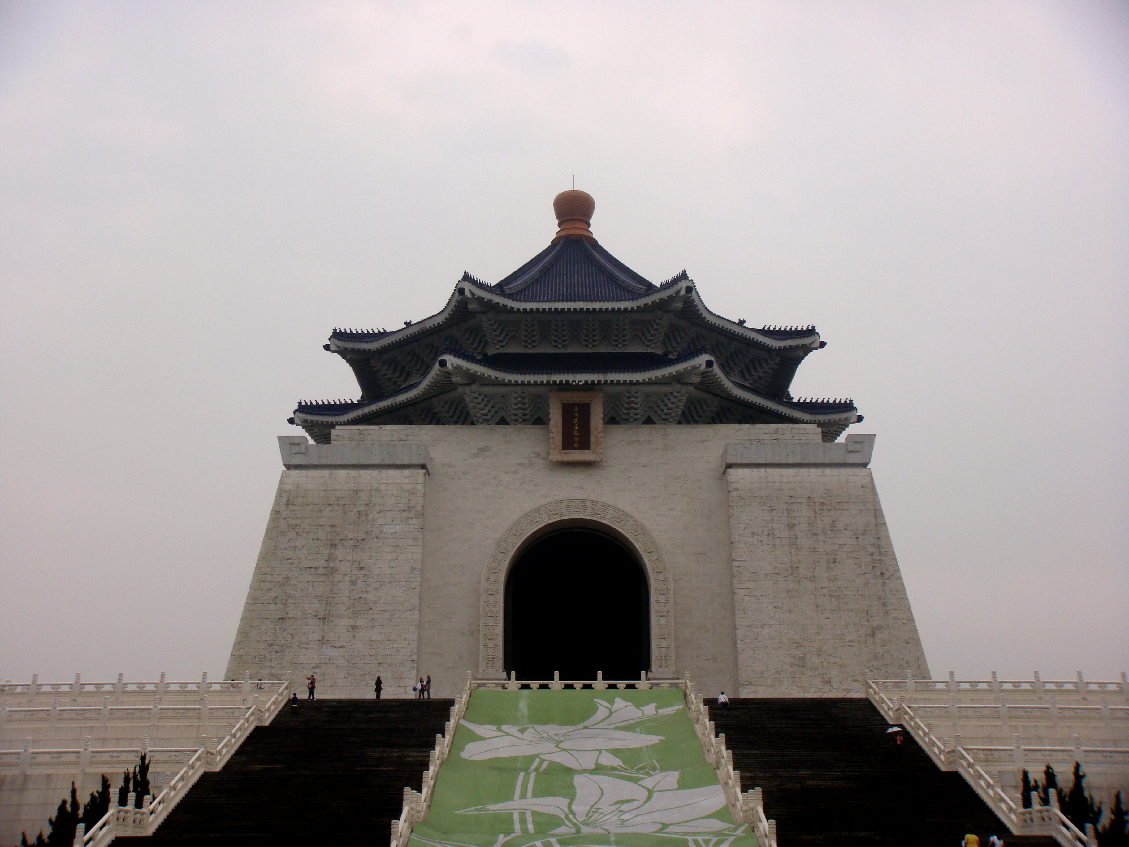 Exterior view of Chiang Kai-shek Memorial Hall, taken in Mar 08 as National Taiwan Democracy Memorial Hall under Chen Shui-bian's DPP government.